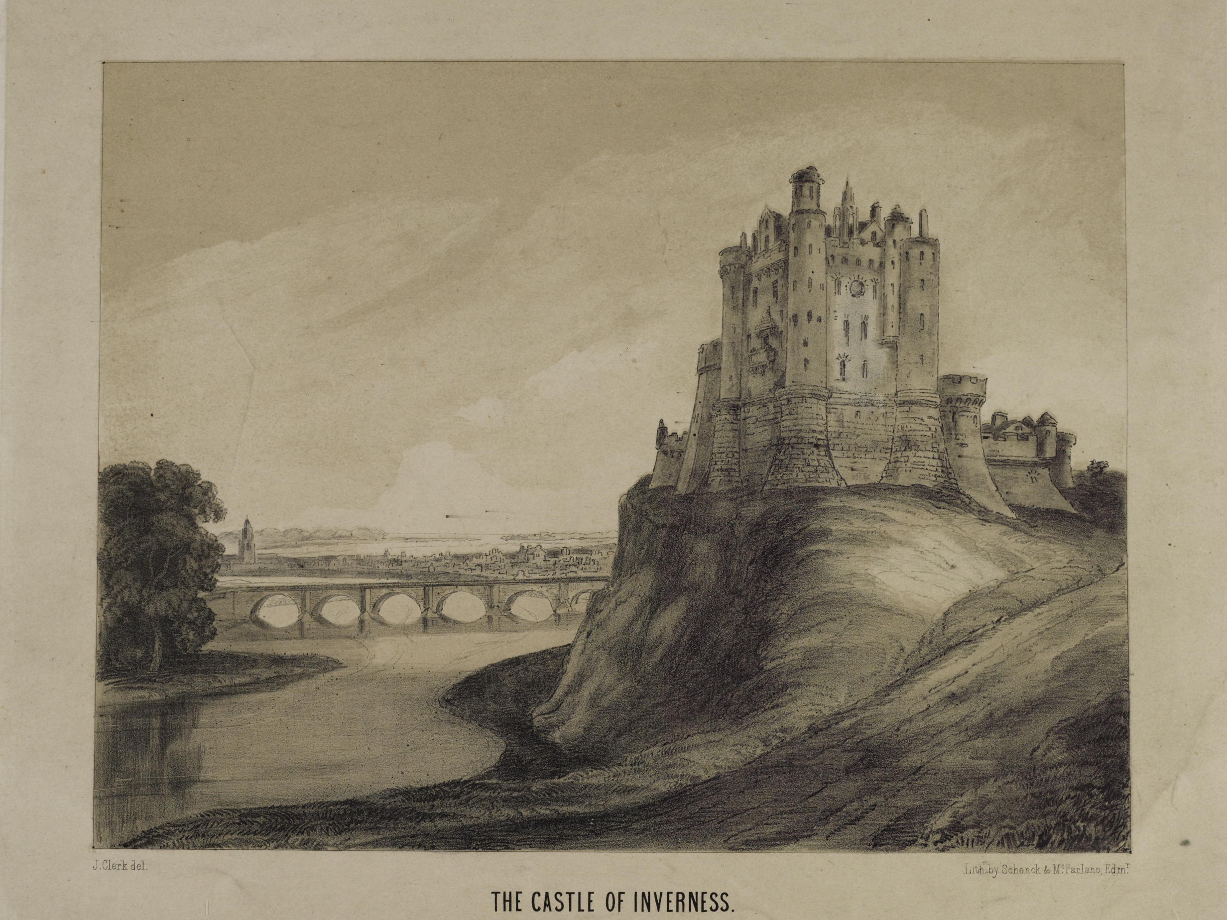 Castle of Inverness. J. Clack, lithographed by Schenck, Edinburgh